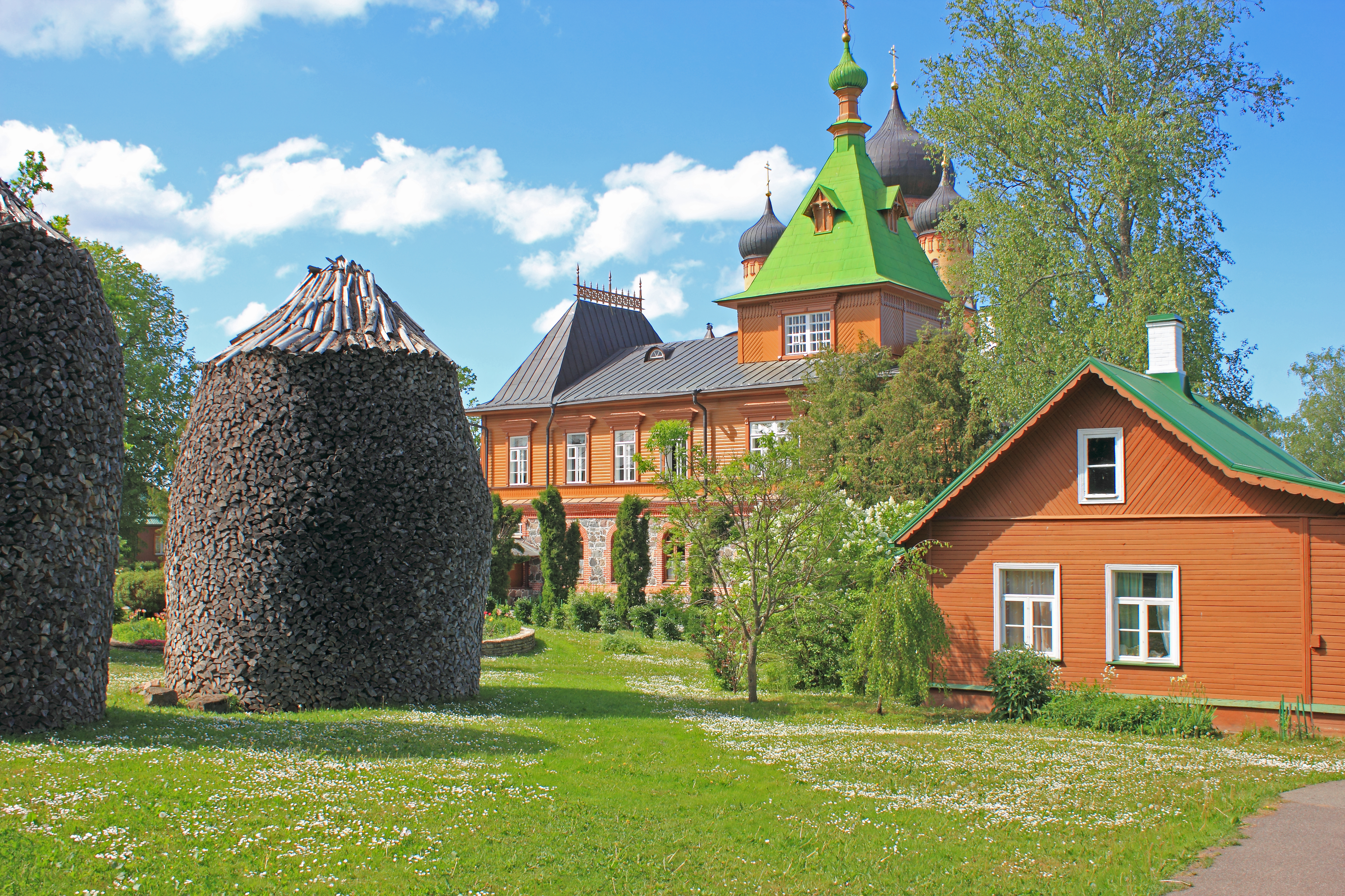 Inner courtyard of Pühtitsa Convent. Kuremäe, Ida-Virumaa, Estonia.